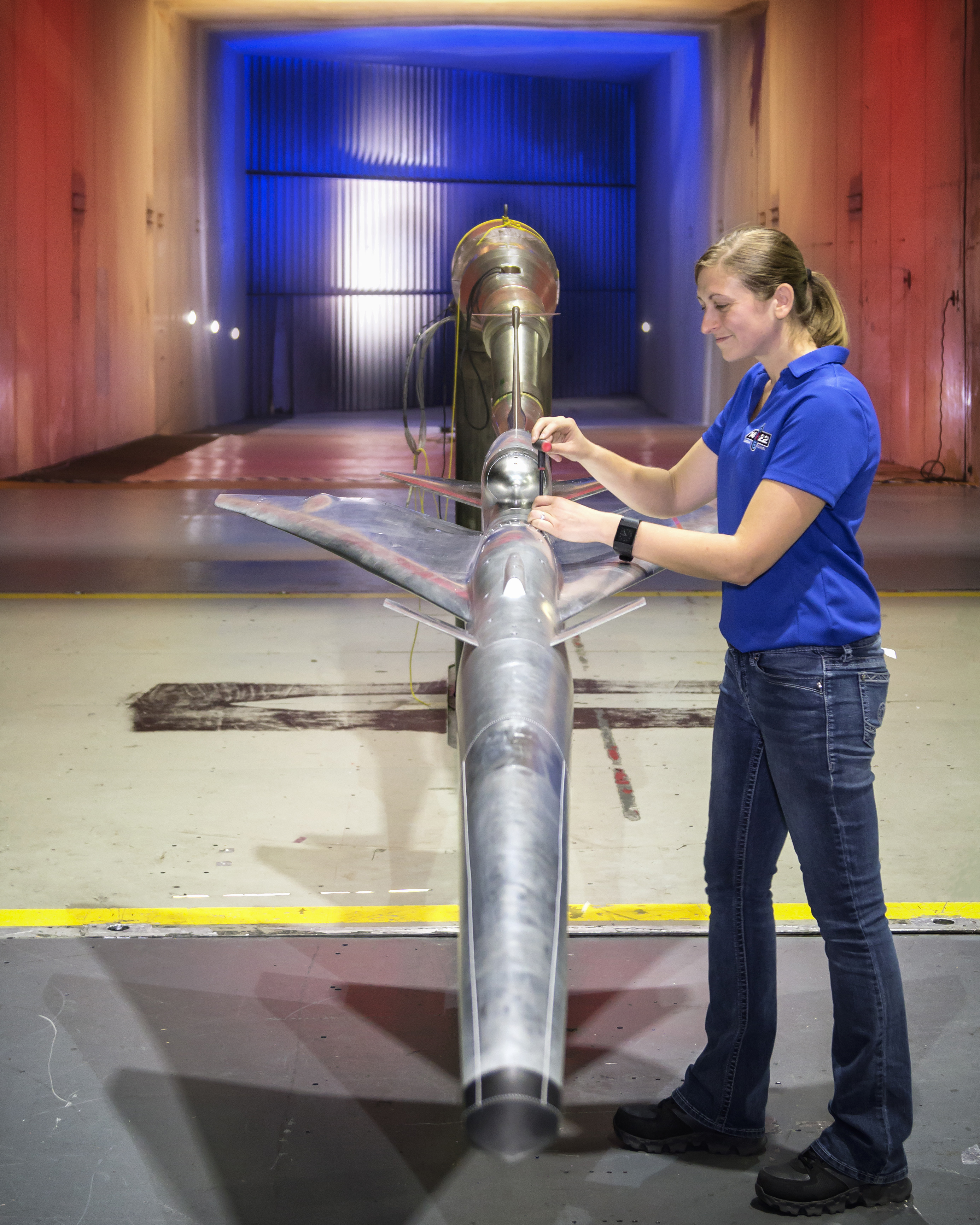 Samantha O’Flaherty, Test Engineer for Jacobs Technology Inc., finalizes the set-up of the Quiet Supersonic Technology (QueSST) Preliminary Design Model inside the 14- by- 22 Foot Subsonic Tunnel at NASA Langley Research Center. Over the next several weeks, engineers will conduct aerodynamic tests on the 15% scale model and the data collected from the wind tunnel test will be used to predict how the vehicle will perform and fly in low-speed flight. The QueSST Preliminary Design is the initial design stage of NASA’s planned Low-Boom Flight Demonstration experimental airplane, otherwise known as an X-plane. This future X-plane is one of a series of X-planes envisioned in NASA’s New Aviation Horizons initiative, which aims to reduce fuel use, emissions and noise through innovations in aircraft design that depart from the conventional tube-and-wing aircraft shape.